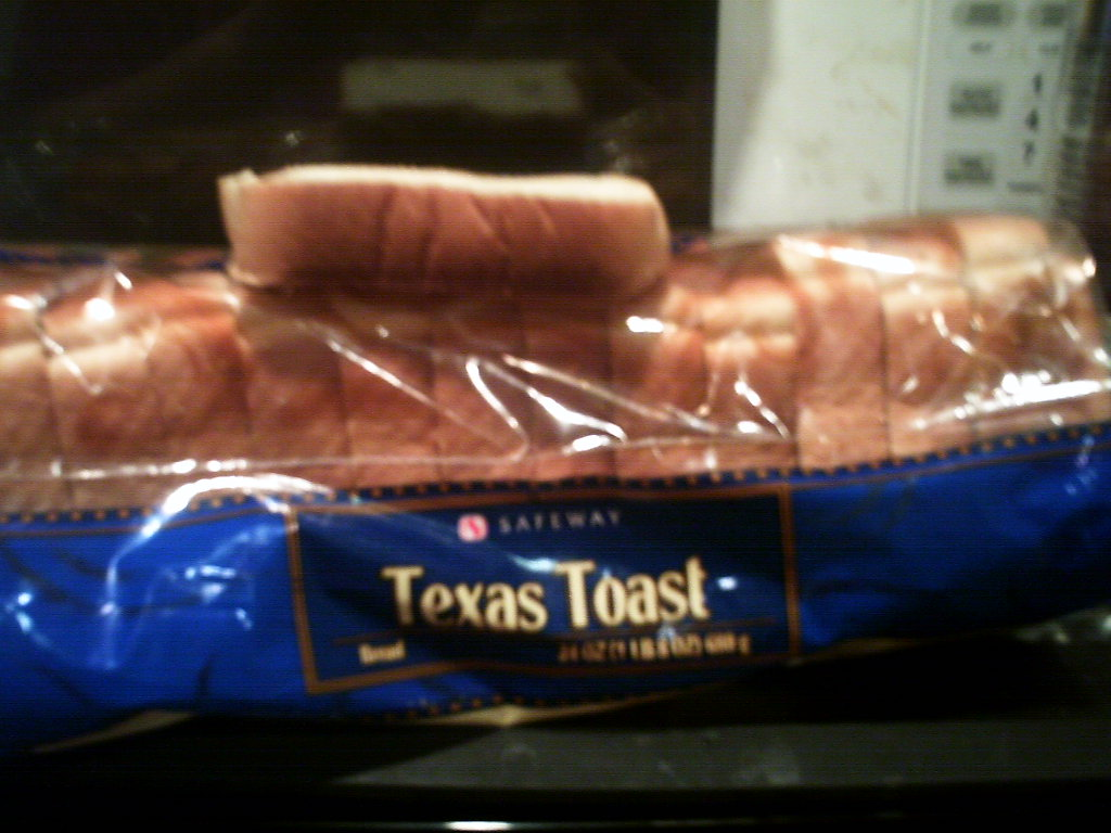 Image of a loaf of Texas Toast, a type of double-thick bread. This package was purchased from a Safeway in the District of Columbia.